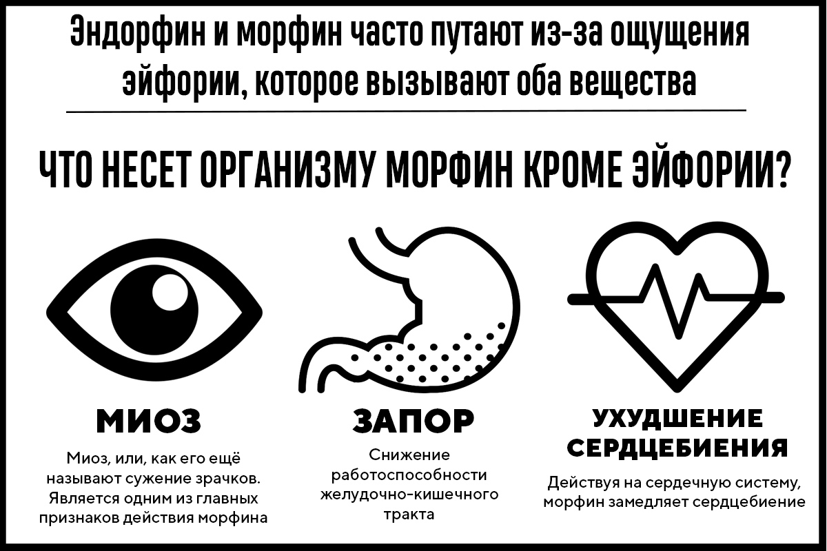 Health